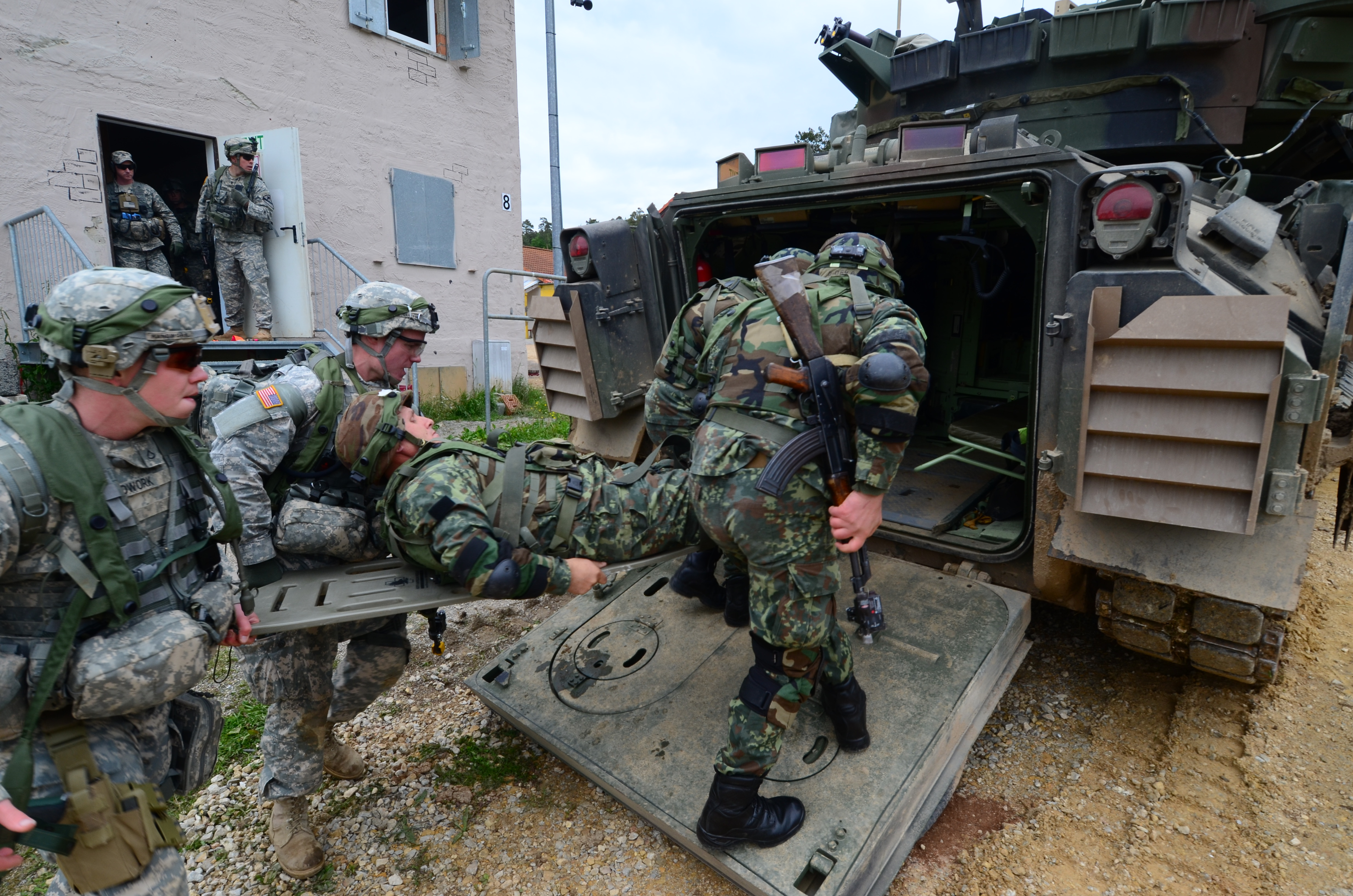 Albanian soldiers, Armenian soldiers, and U.S. Soldiers of Bravo Company, 2nd Battalion, 5th Cavalry Regiment, 1st Brigade Combat Team, 1st Cavalry Division load a simulated casualty into a M2/M3 Bradley Fighting Vehicle during exercise Combined Resolve II at the Joint Multinational Readiness Center in Hohenfels, Germany, May 17, 2014. Combined Resolve II is a multinational decisive action training environment exercise occurring at the Joint Multinational Training Command’s Hohenfels and Grafenwoehr Training Areas that involves more than 4,000 participants from 15 partner nations. The intent of the exercise is to train and prepare a U.S. led multinational brigade to interoperate with multiple partner nations and execute unified land operations against a complex threat while improving the combat readiness of all participants. (U.S. Army photo by Spc. Tyler Kingsbury/Not Reviewed)